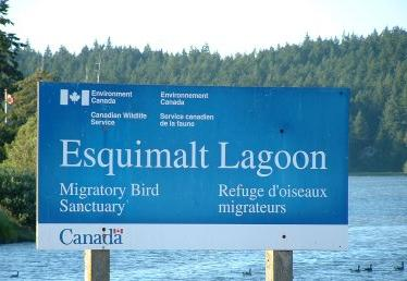 On the west end of Hatley Castle, Esquimalt Lagoon is a beach and wildlife preserve with a view of the Royal Roads University in the background. A thin spit of sand separates the ocean beach from the salt-water lagoon. A small plaque on a concrete cairn in the shore of the Esquimalt Lagoon outlines its history. An anchor sits by the concrete cairn.